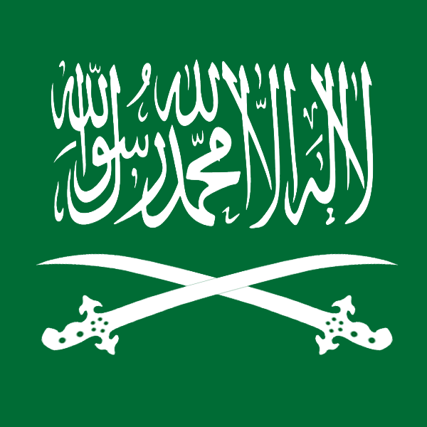 Royal Standard of Saudi Arabia 1938-1973